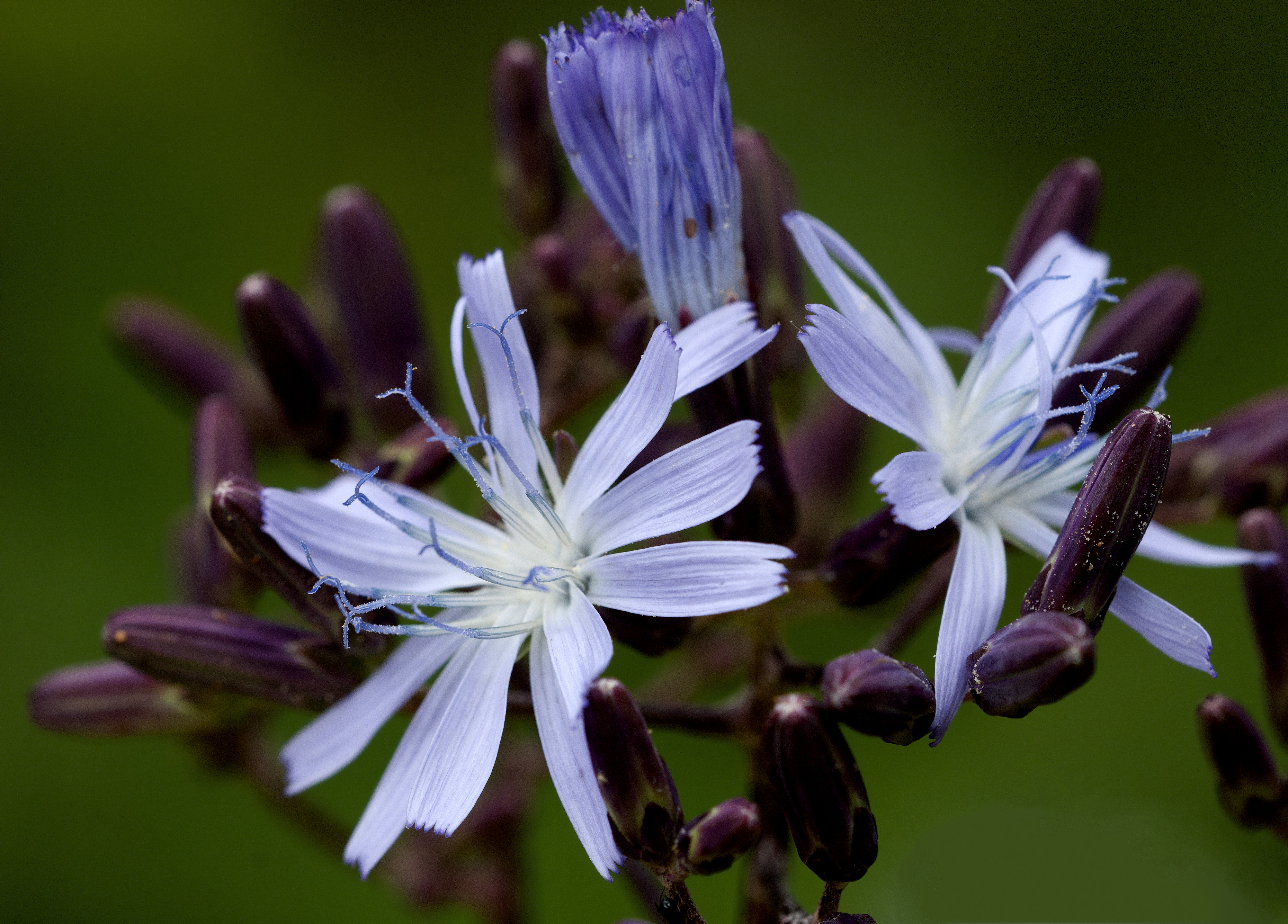 A flowered Pontic Blue-sow-thistle (Cicerbita bourgaei). Tamdere, Dereli - Giresun, Turkey.